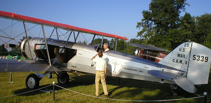 Lin M. Hall